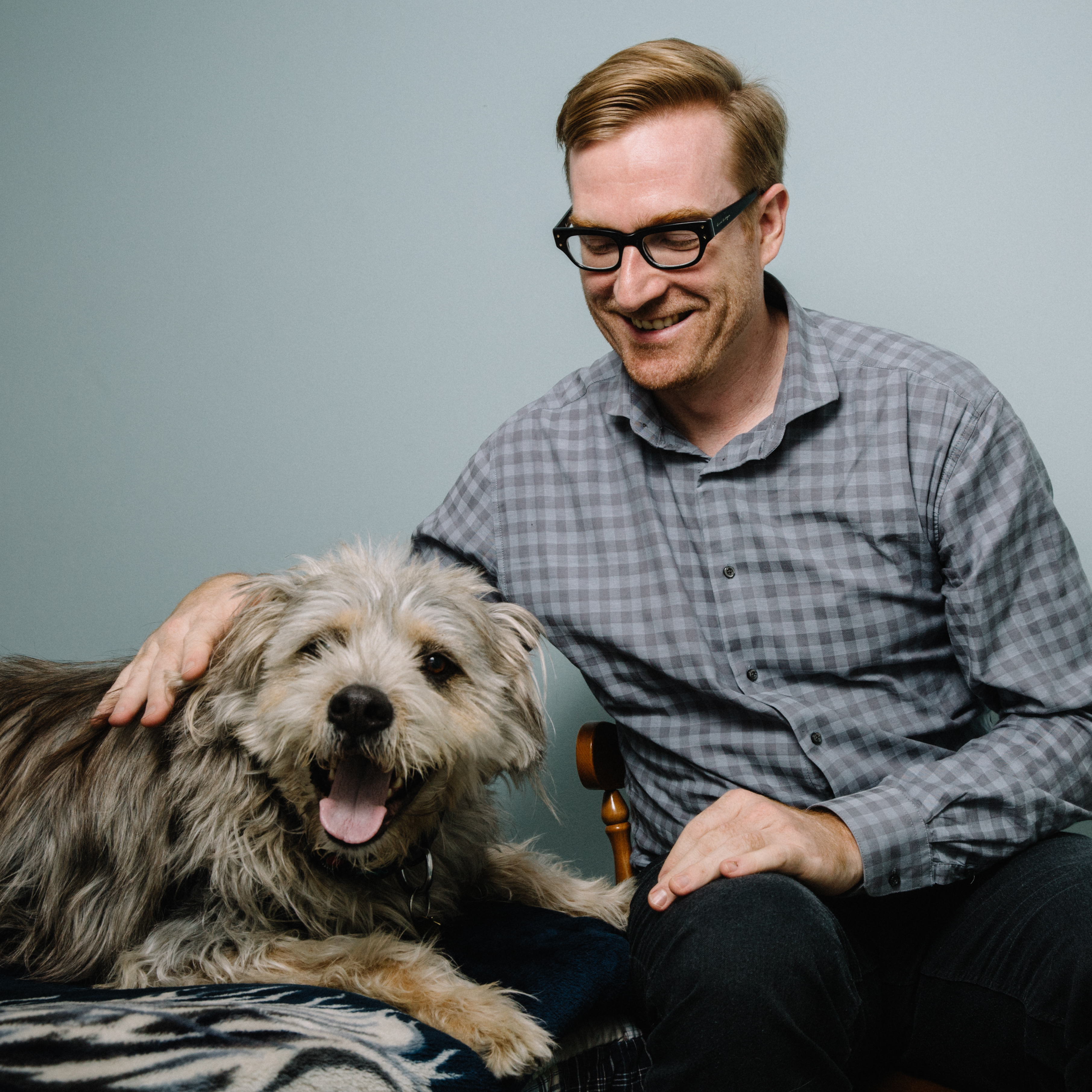 It's a picture of me with my dog Chompsky! TWO GOOD BOYS